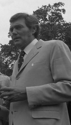 Title: Bonn, Bundeskanzler Brandt empängt Schauspieler People in the image: Harald Leipnitz Factual corrections and alternative descriptions are encouraged separately from the original description. Additionally errors can be reported at this page to inform the Bundesarchiv. Original historic description: Bundeskanzler Willy Brandt empfängt Filmschauspieler